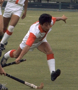 Shigeo Kaoku of Japan and Donald Smart of Australia compete during the Men's Hockey Group A match between Japan and Australia during Tokyo Olympic at Komazawa Stadium on October 13, 1964 in Tokyo, Japan.